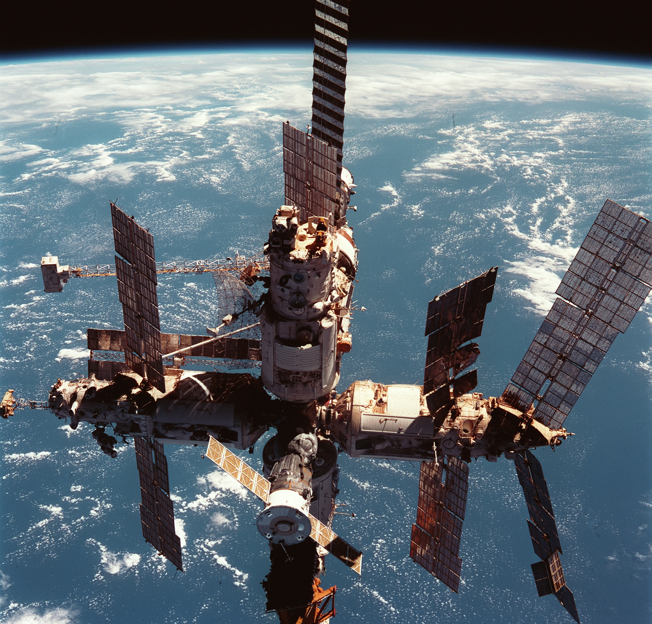 Russia's Mir space station is backdropped over the blue and white planet Earth in this medium range photograph recorded during the final fly-around of the members of the fleet of NASA's shuttles. Seven crew members, including Andrew S.W. Thomas, were aboard the Discovery when the photo was taken; and two of his former cosmonaut crewmates remained aboard Mir. Thomas ended up spending 141 days in space on this journey, including time aboard the Space Shuttles Endeavour and Discovery, which delivered and retrieved him to and from the Mir.